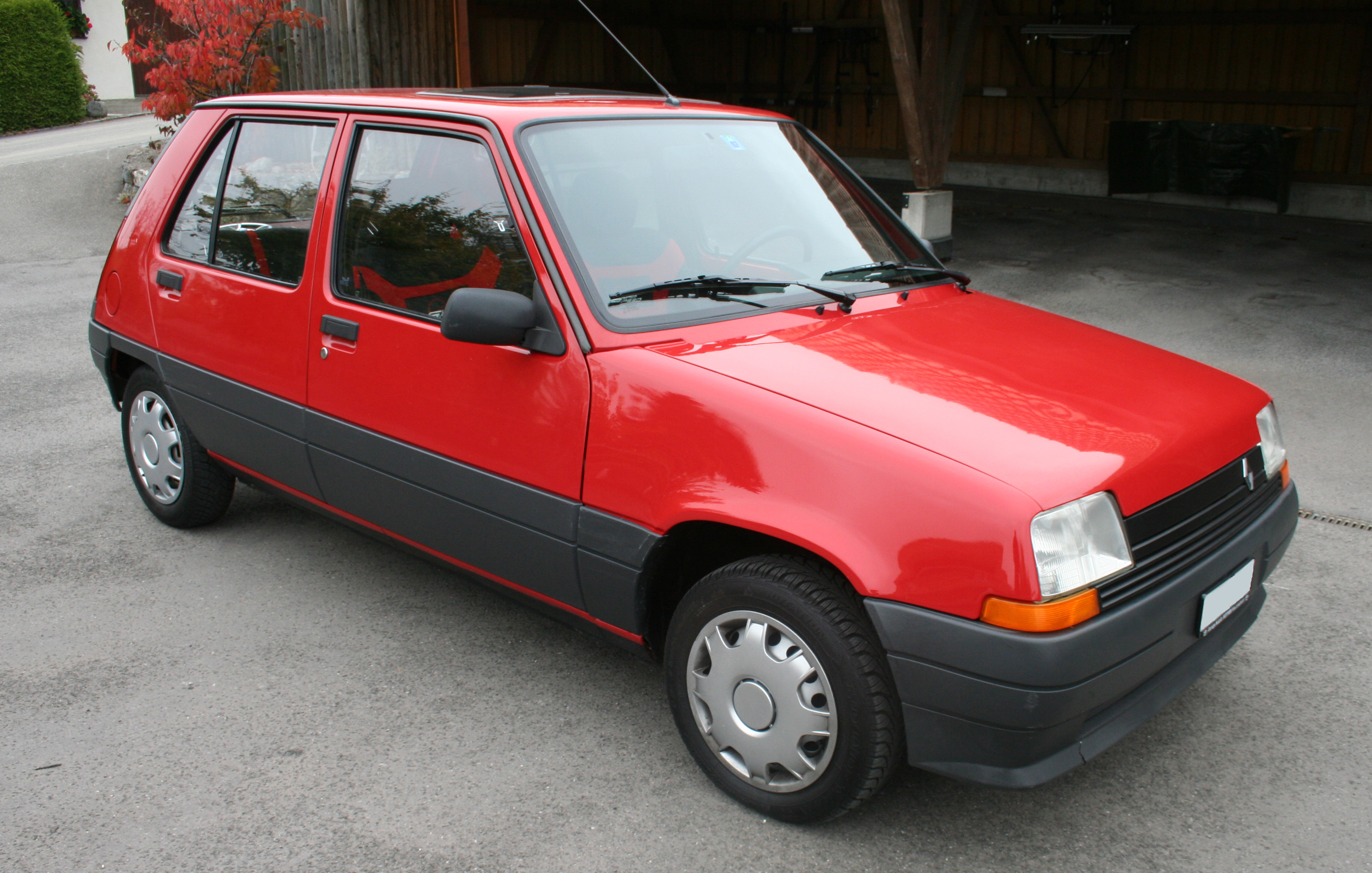 Renault 5